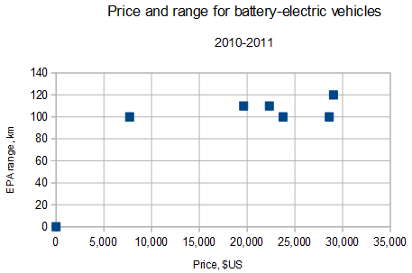 Electric vehicles range and price, until 2011. Source: UBS Evidence Lab Electric Car Teardown , numbers at